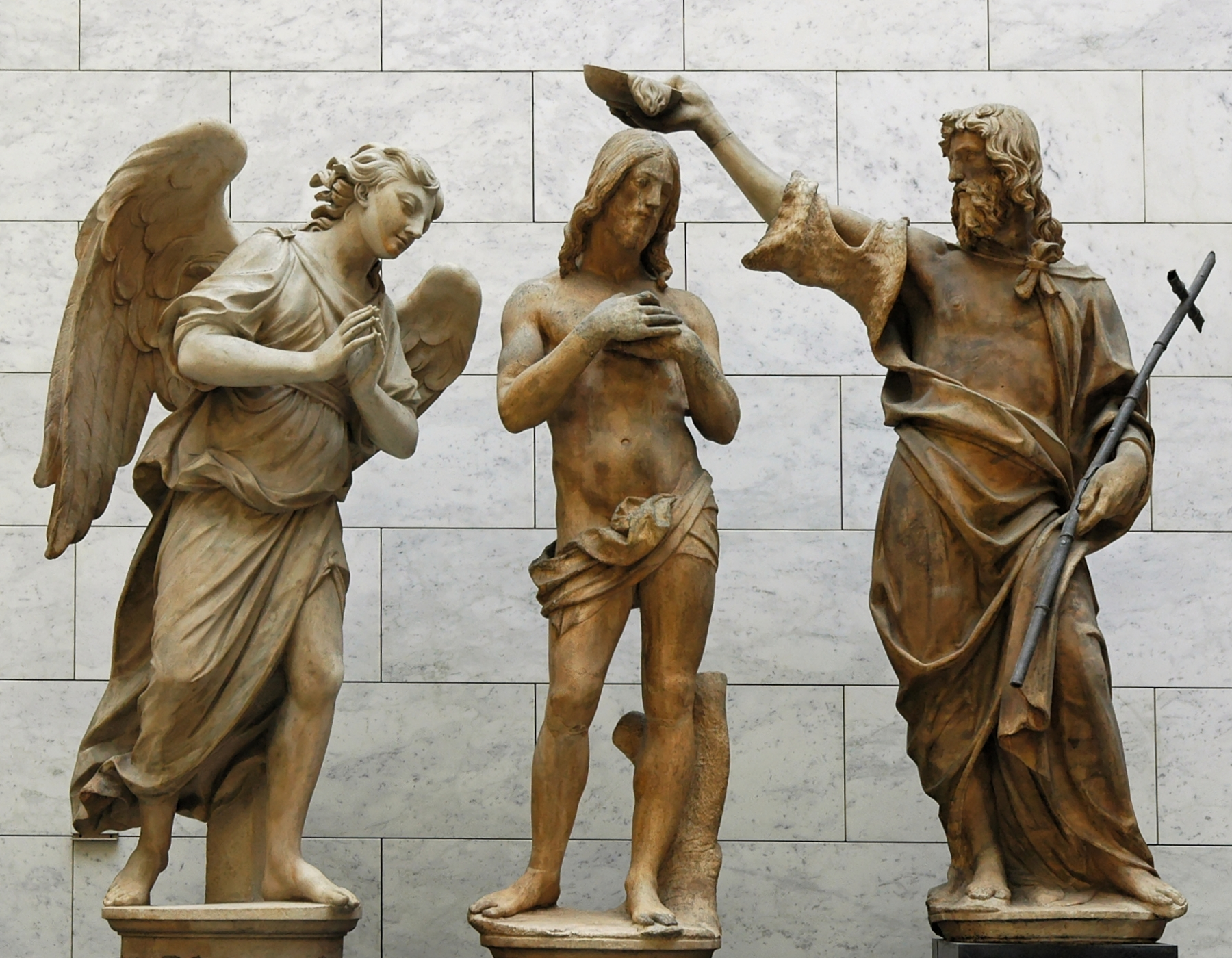 Andrea Sansovino (Italian, 1467–1529) and Innocenzo Spinazzi, "Baptism of Christ", formerly on the Battistero di San Giovanni, now in the Opera del Duomo Museum in Florence, Italy.